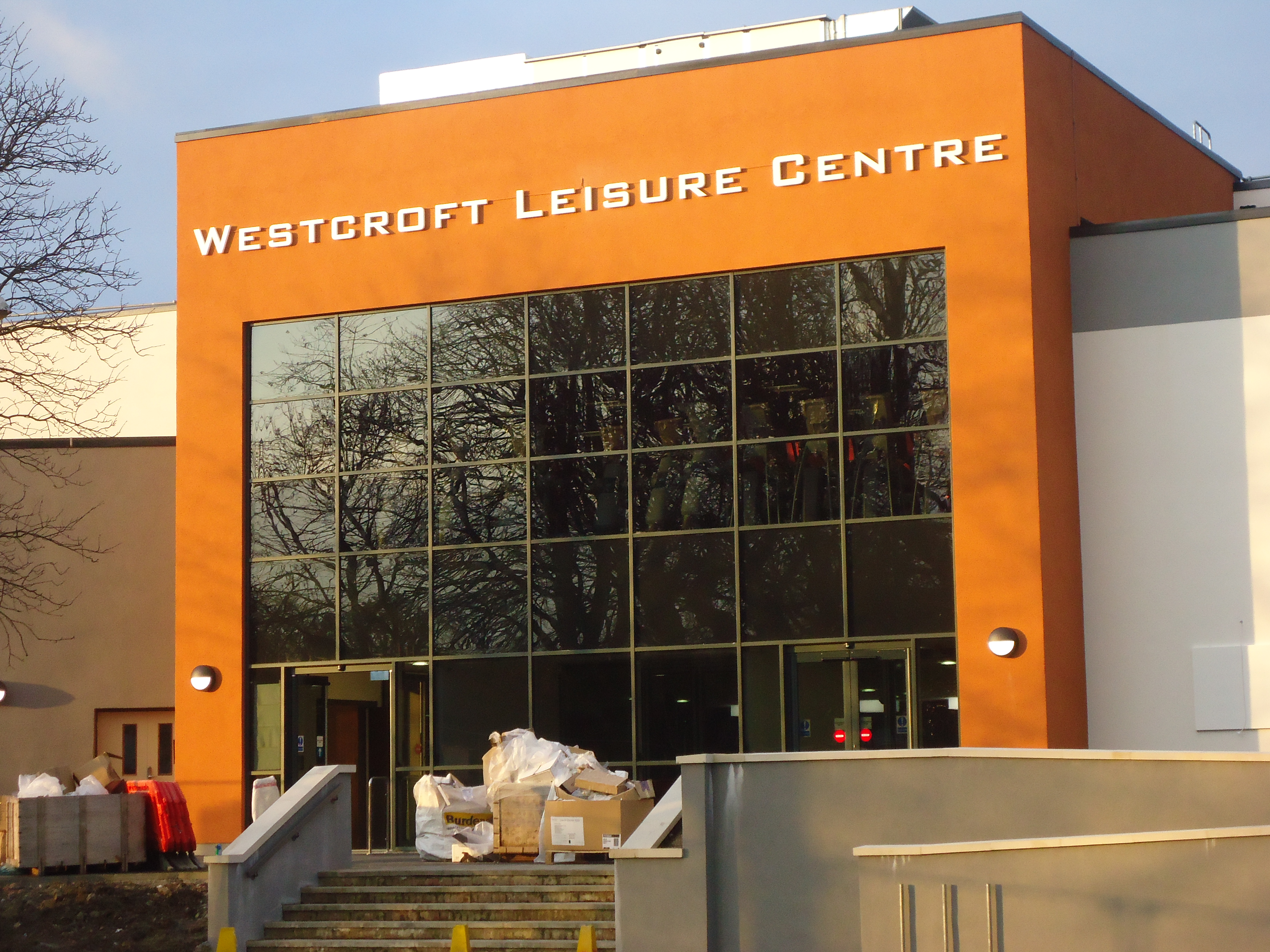 2013 Westcroft leisure and library complex on the edge of Carshalton Village in the London Borough of Sutton